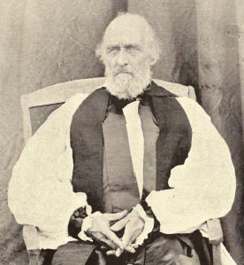 William Carpenter Bompas Title: The bishops of the Church of England in Canada and Newfoundland; being an illustrated historical sketch of the Church of England in Canada, as traced through her episcopate Creator: Mockridge, Charles H. (Charles Henry), 1844-1913 Date: 1896 Publisher: Toronto : F.N.W. Brown Possible Copyright Status: NOT_IN_COPYRIGHT